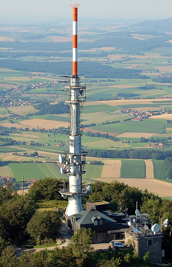 Transmitter, Radio Station 'Hoher Bogen'